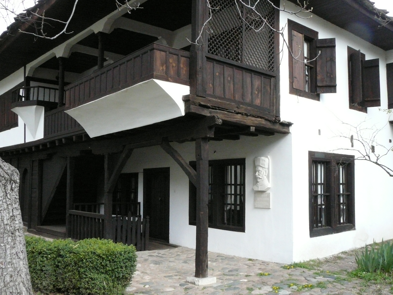 House of Dimitraki Hadjitoshev in the Ethnographic complex "Saint Sophronius of Vratsa" in Vratsa, Bulgaria